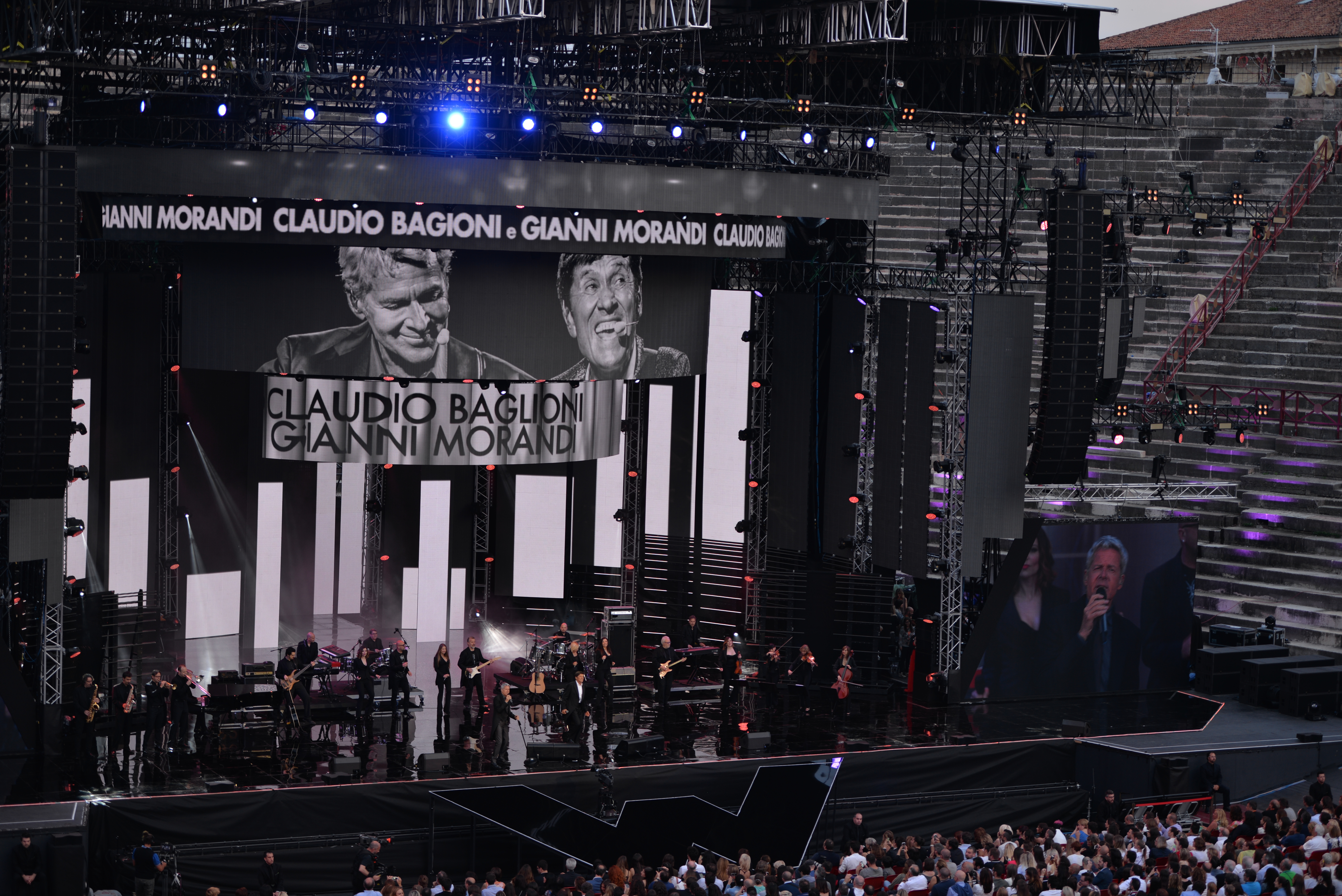 Cladio Baglioni and Gianni Morandi at the Wind Music Awards 2016 ceremony at Verona Arena